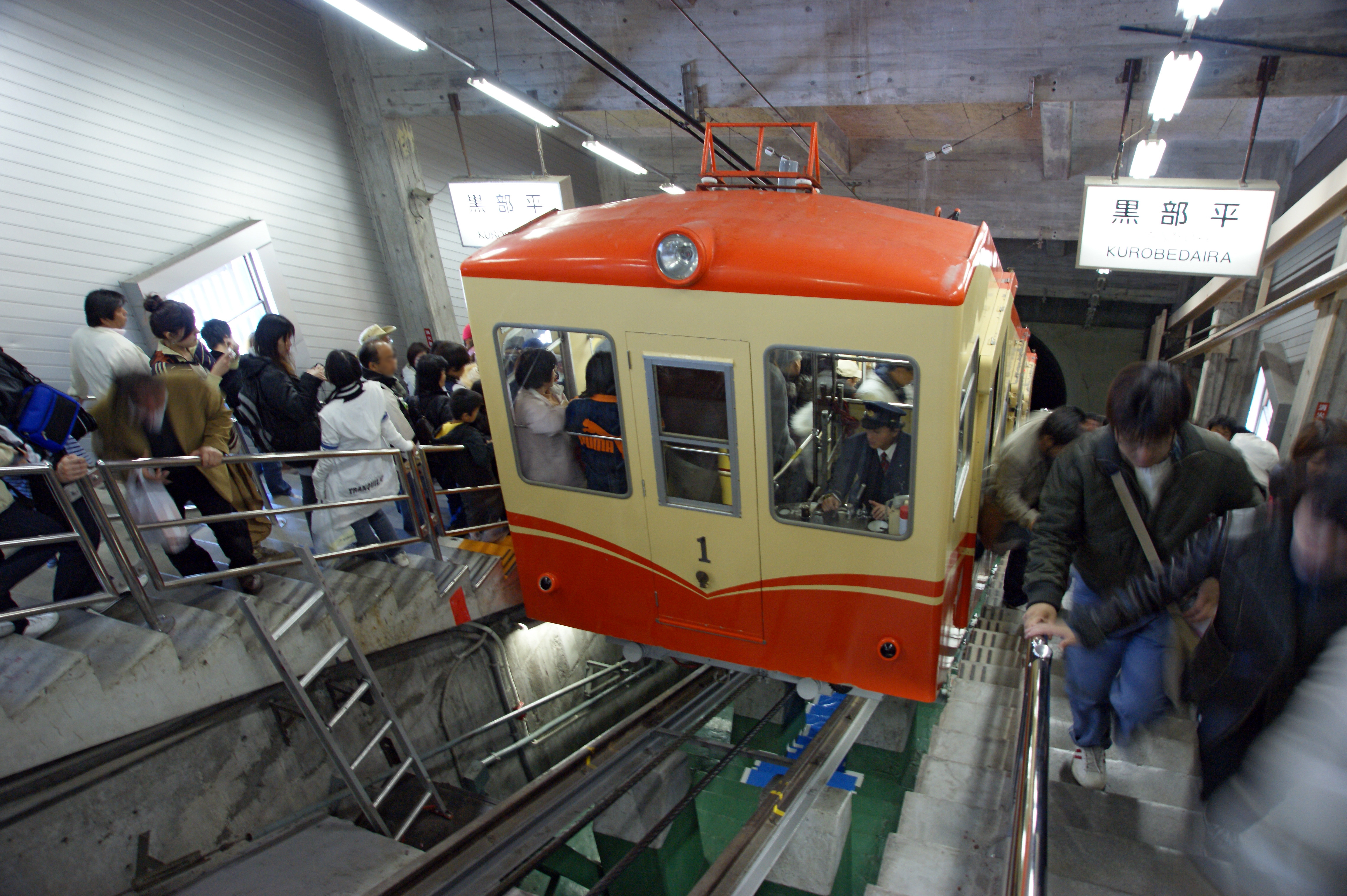 Tateyama Kurobe Cablecar Kurobe-daira Station(1828m) in Toyama prefecture, Japan